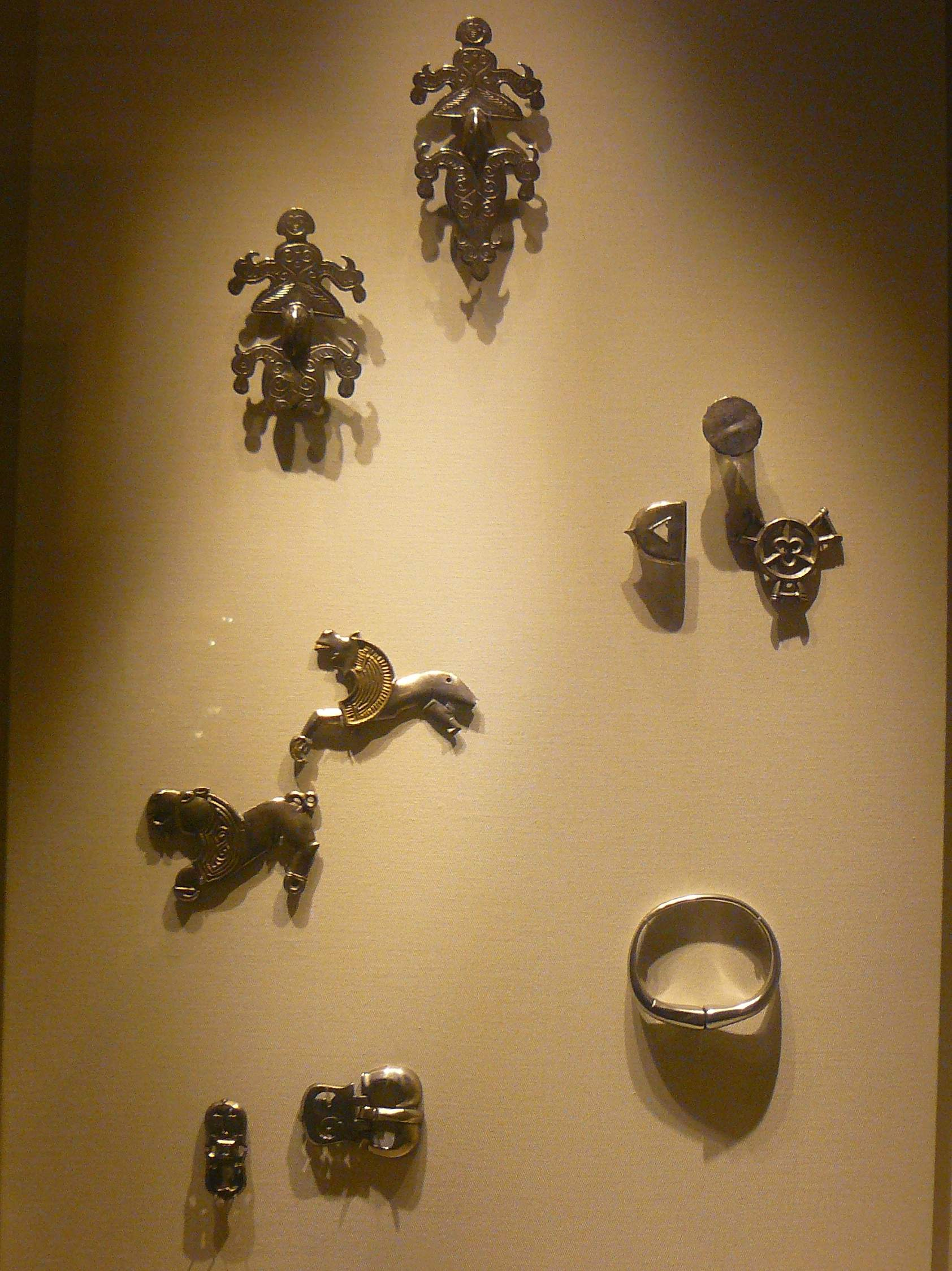 Part of Martynivka Hoard from Ukraine, about 550-650 AD, British Museum, London